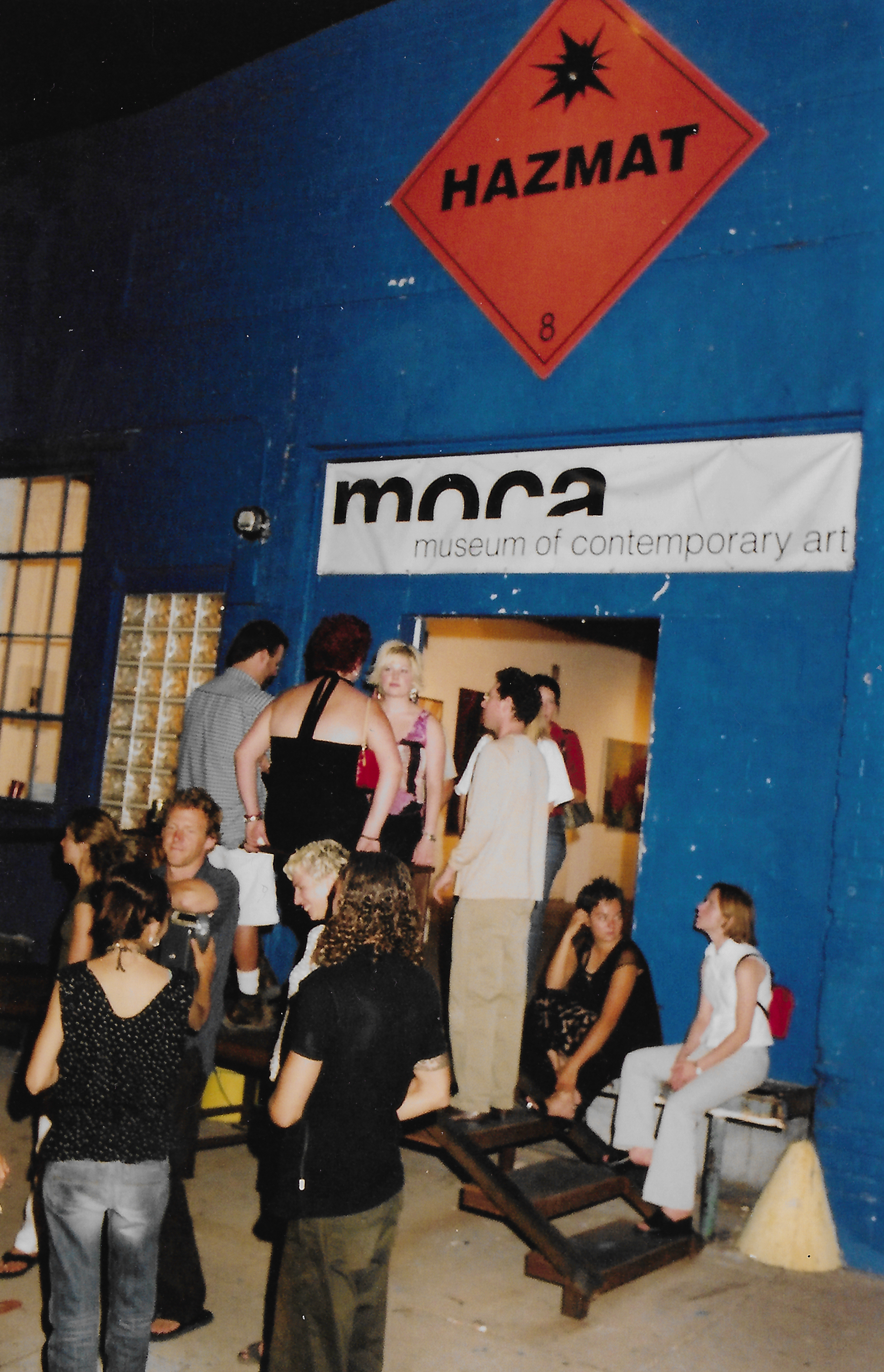 The original location of MOCA